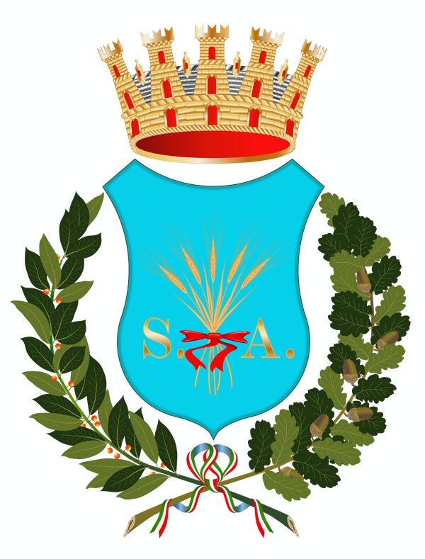 Coat of arms of Spoltore (Pescara), Italy